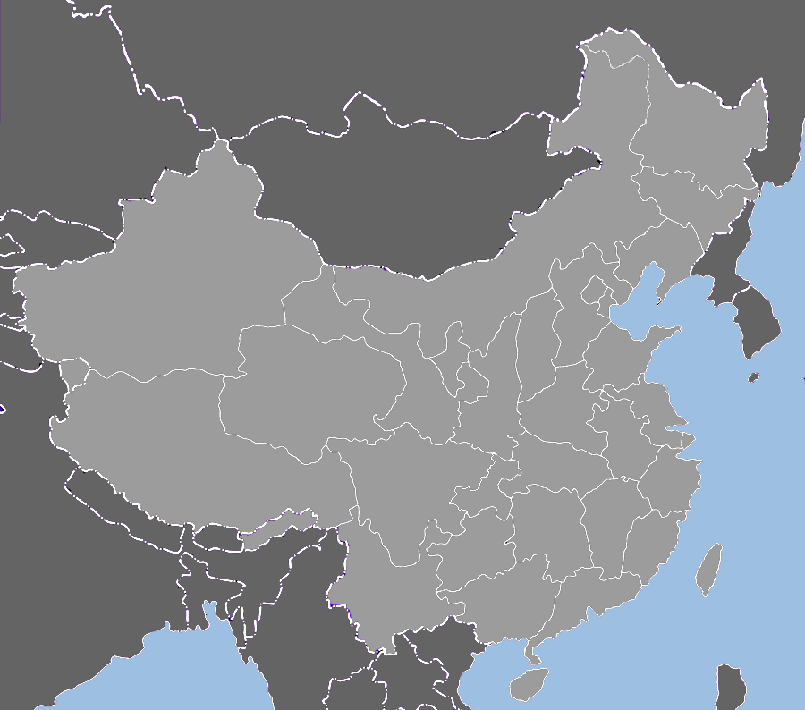 The template map of the areas claimed by the People's Republic of China